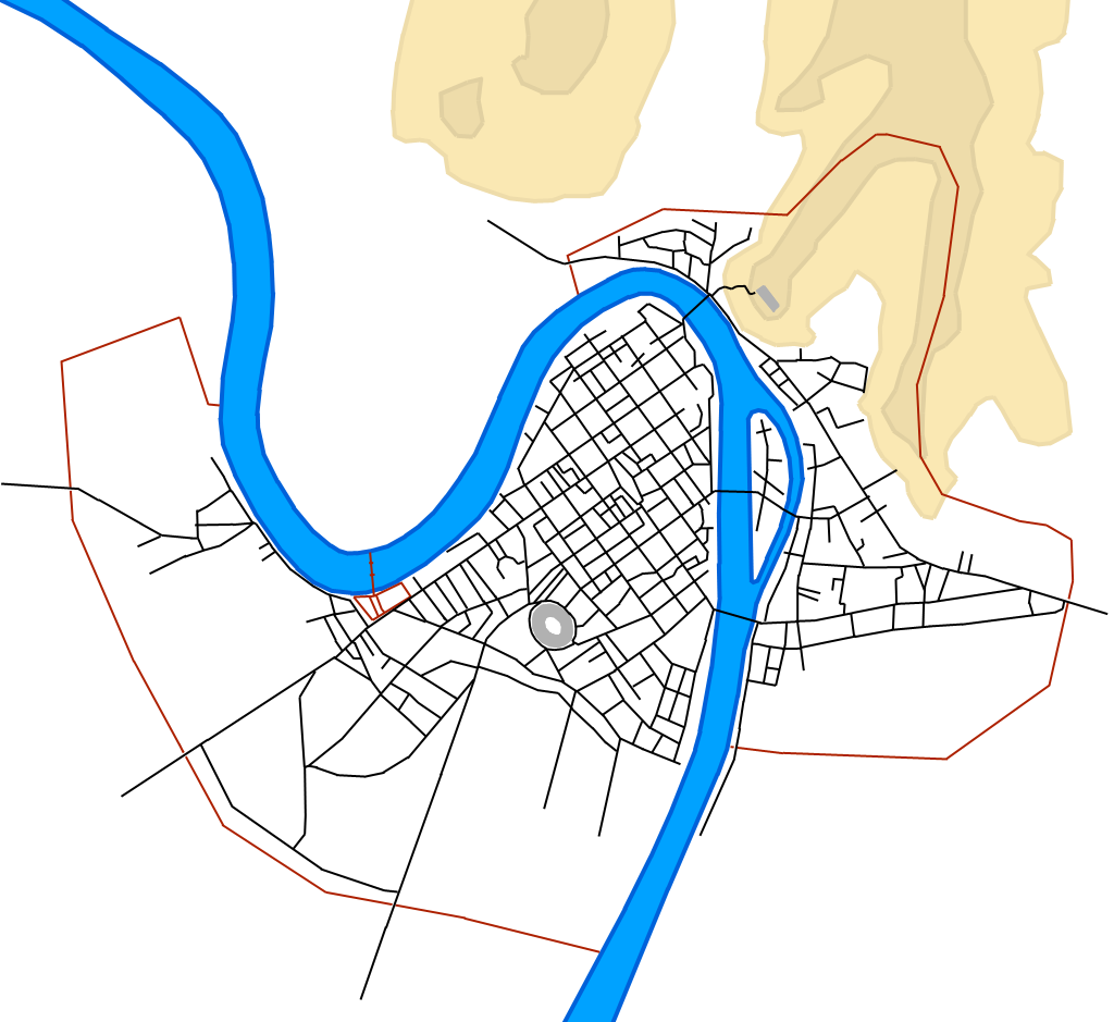 Verona in medieval